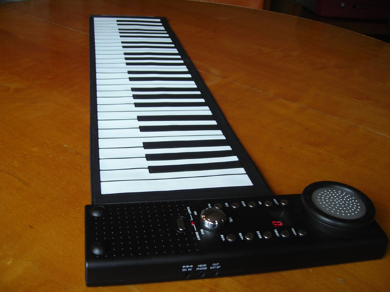 The flex keyboard ... cool :) It can be used in sandstorms too